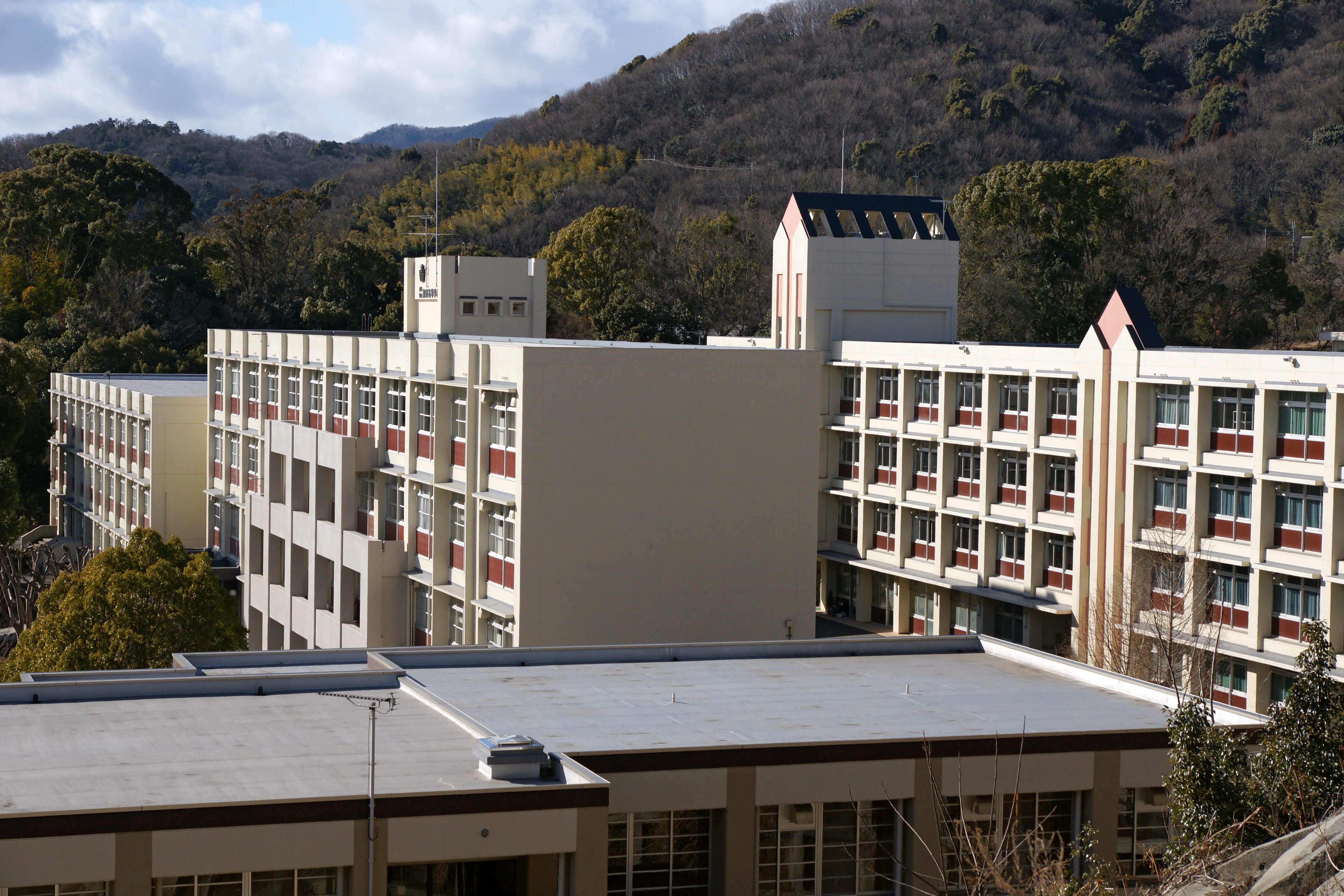 Hyogo Prefectural Tatsuno Senior High School in Tatsuno, Hyogo prefecture, Japan